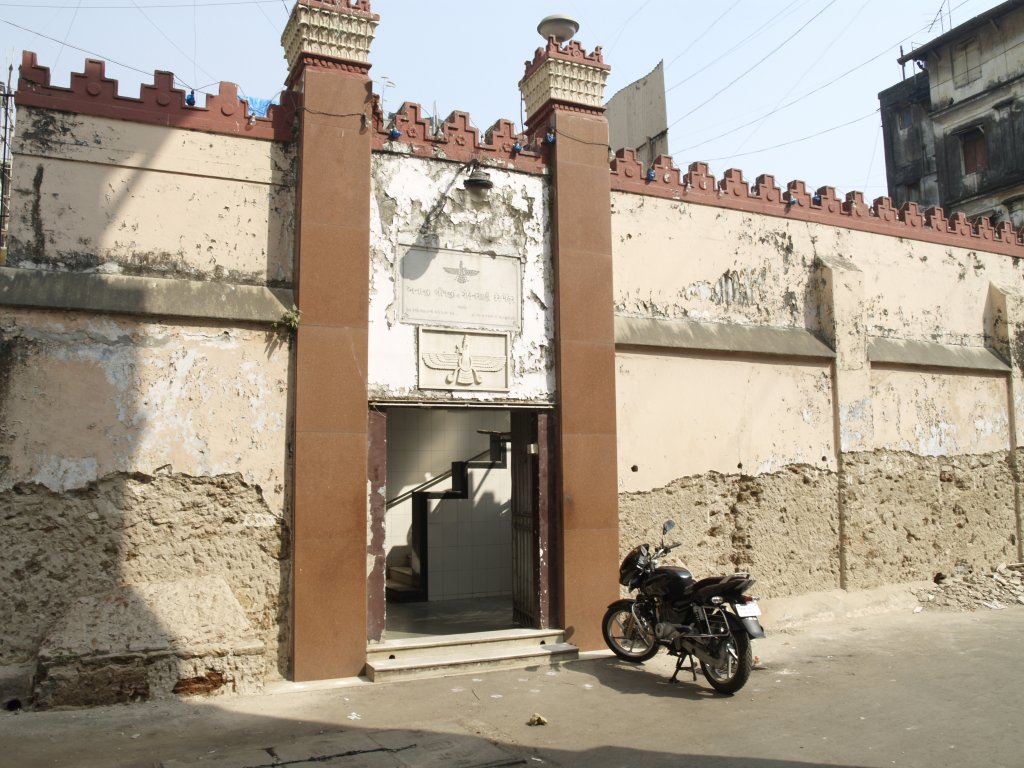 Entrance to "Seth Banaji Limji Shenshai Agiary", at Banaji Street, Fort, the second oldest Parsi fire temple in Bombay, still functional.